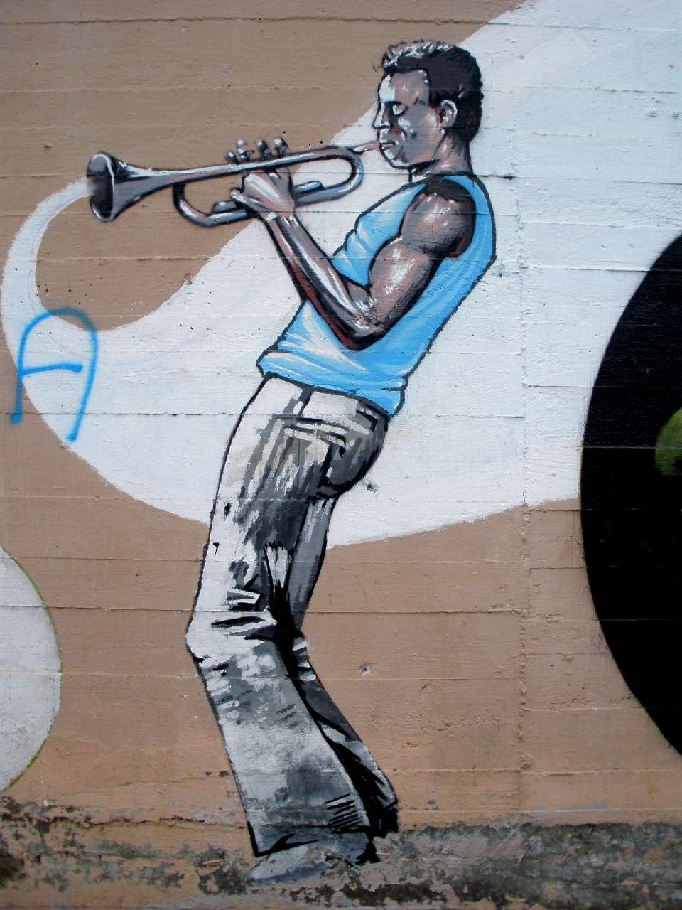 Graffiti en Ormaiztegi